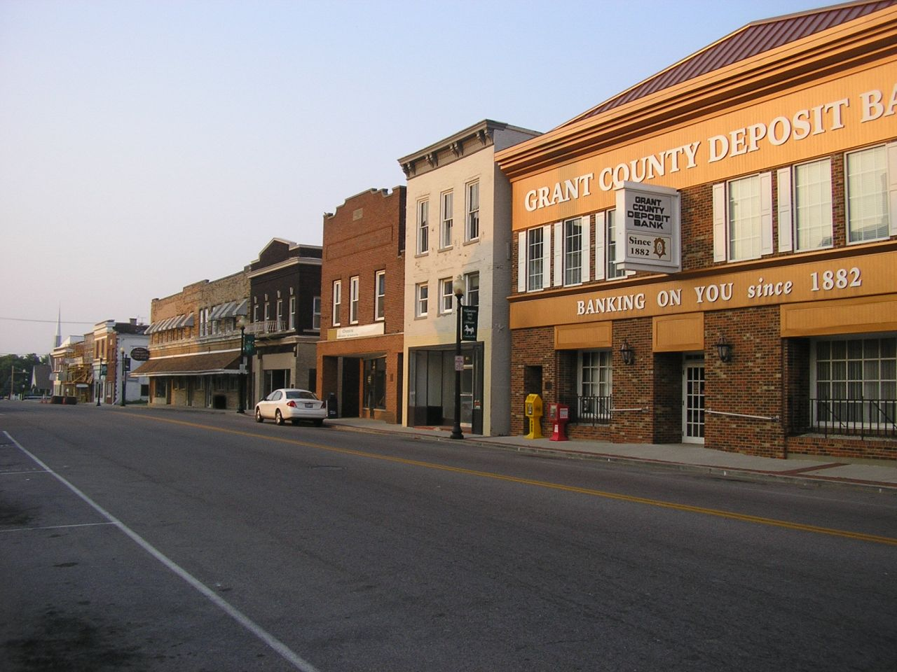 Downtown Williamstown, Kentucky